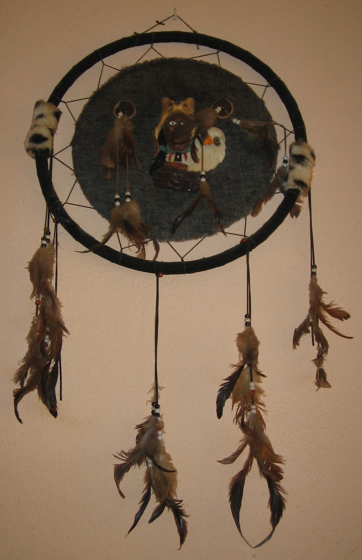 A dreamcatcher.